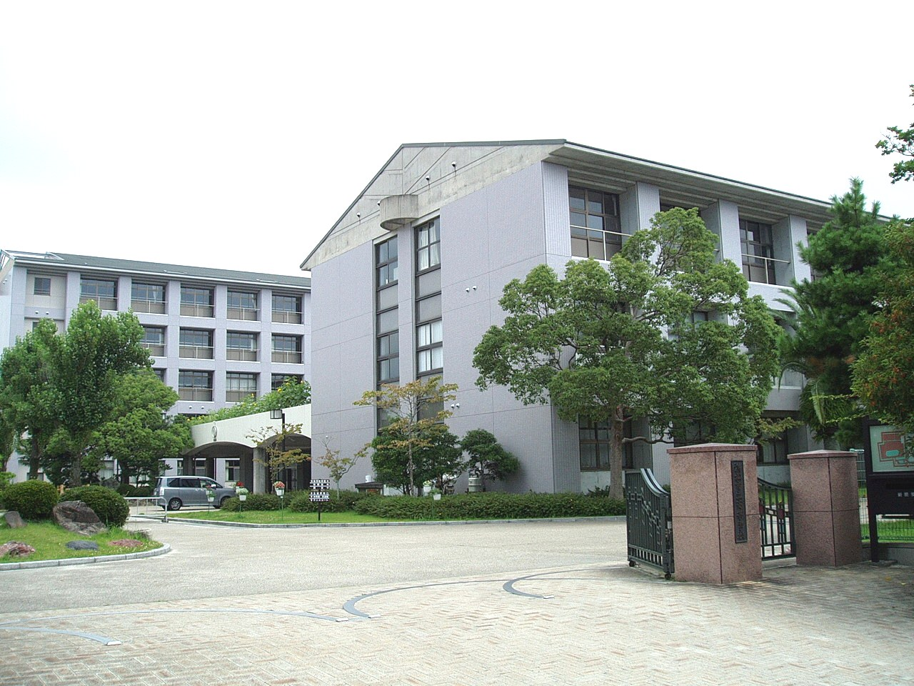 Main entrance to Hamamatsu Municipal Senior High School located in Hamamatsu, Shizuoka, Japan.